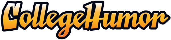 a png image of the CollegeHumor logo